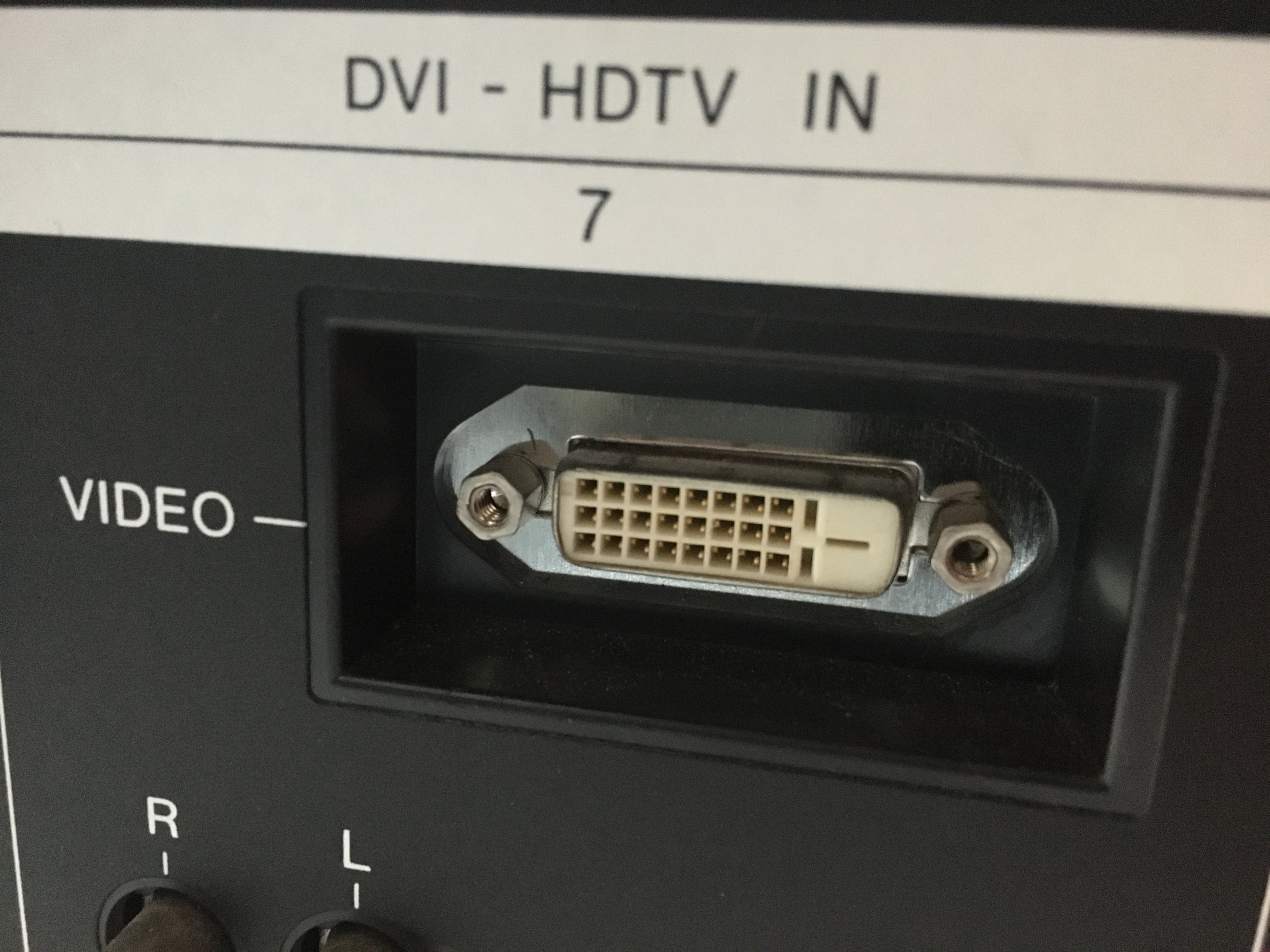 Dvi eia - 861